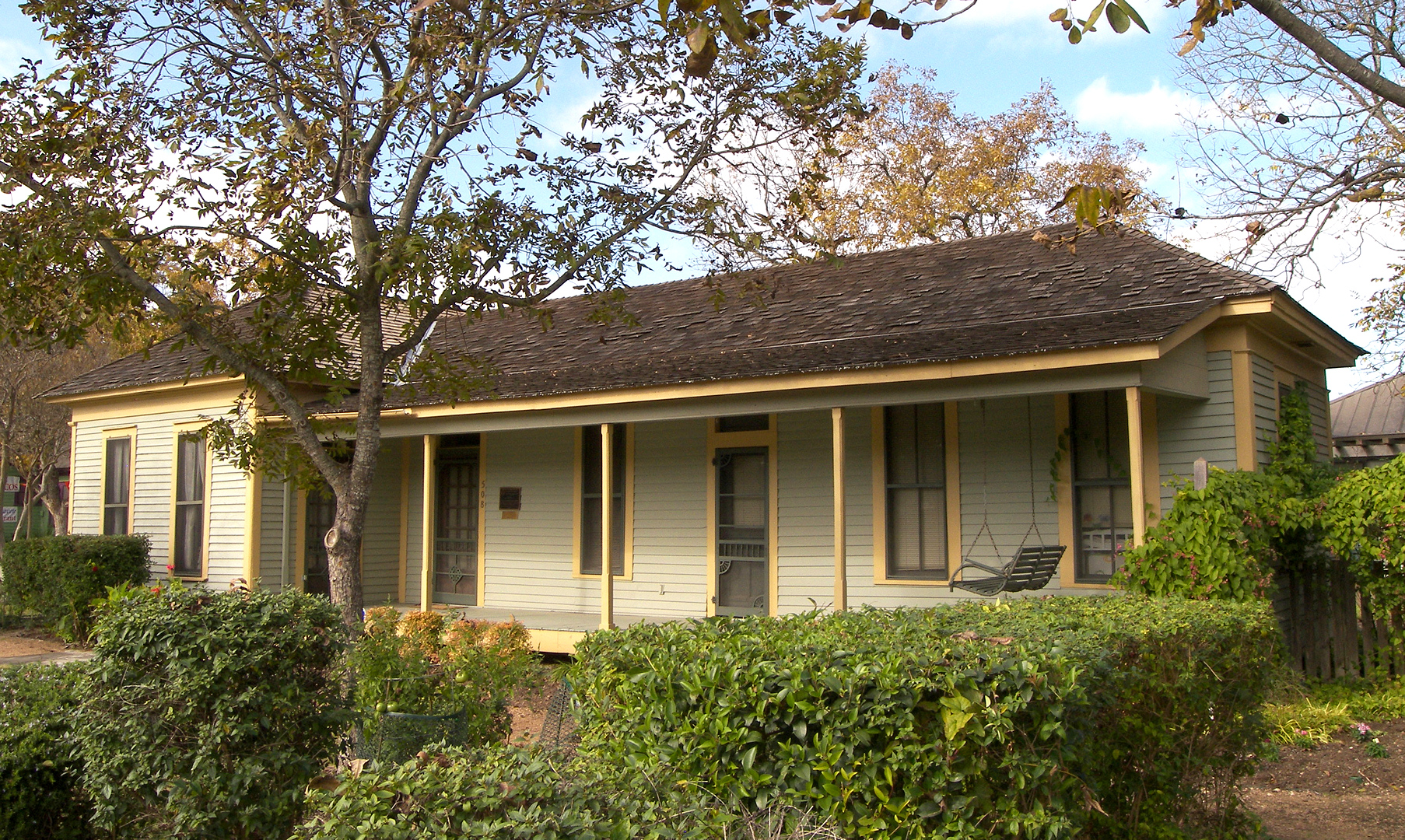 The Katherine Anne Porter House, located in Kyle, Texas, United States. The property was listed on the National Register of Historic Places on August 20, 2004.